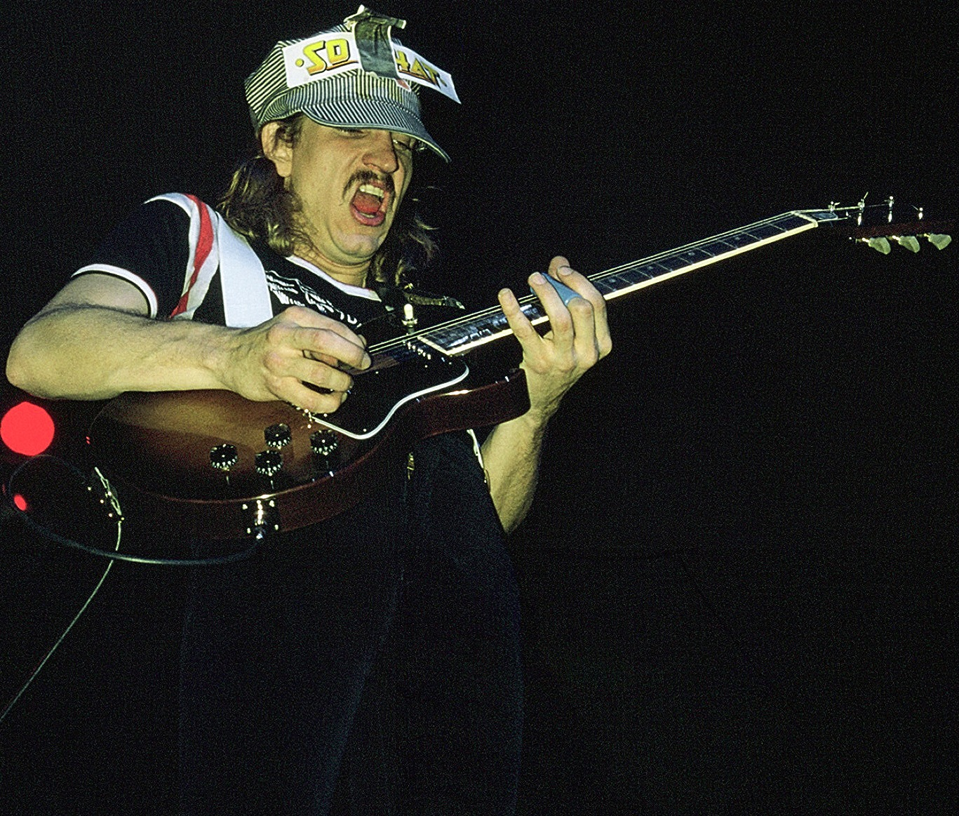 Joe Walsh, American guitarist for the Eagles and other bands